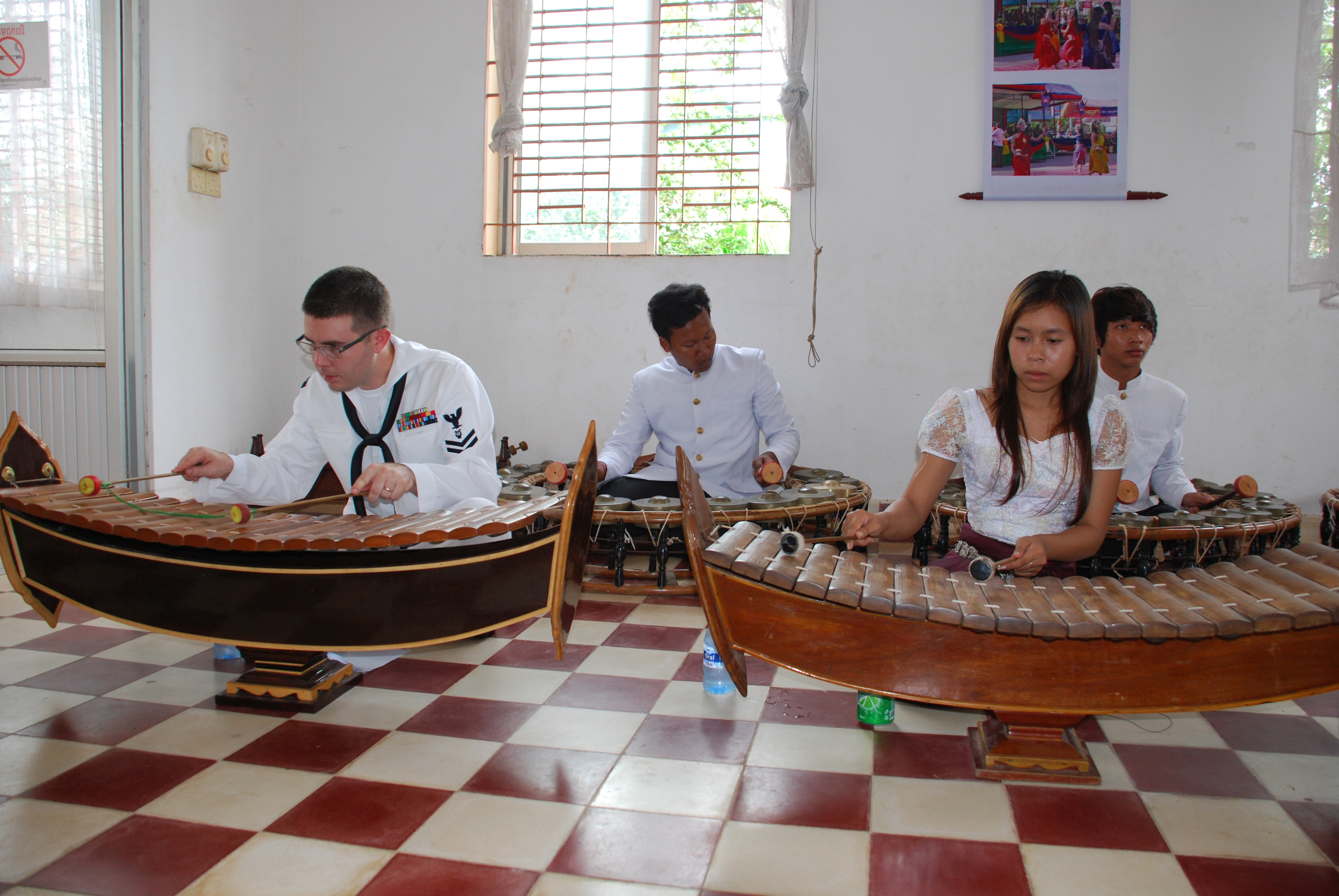 121024-N-KF309-084 KAMPOT, Cambodia (Oct. 24, 2012) – Musician 2nd Class Matthew Kinnaman, a member of the U.S. Seventh Fleet Band ensemble, Orient Express, plays the Cambodian Xylophone (Khong Touch) with Students and teachers from the Kampot Traditional Music School. Both groups were conducting a music workshop during Cooperation Afloat Readiness and Training (CARAT) Cambodia 2012. CARAT is a series of bilateral military exercises between the U.S. Navy and the armed forces of Bangladesh, Brunei, Cambodia, Indonesia, Malaysia, the Philippines, Singapore, Thailand and Timor Leste. (U.S. Navy photo by Lt. Cmdr. Clay Doss /Released) [Note from Wikipedia editor Jacqke, There seems to have been some confusion when the navy public affairs wrote the caption for the photo. The Kong touch is one of the ringed instruments behind the navy sailor and the girl. The sailor and girl are both playing a roneat ek (Cambodian xylophone).]